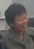 Mrs Gao Jian, China's ambassador to Norway (2007-)